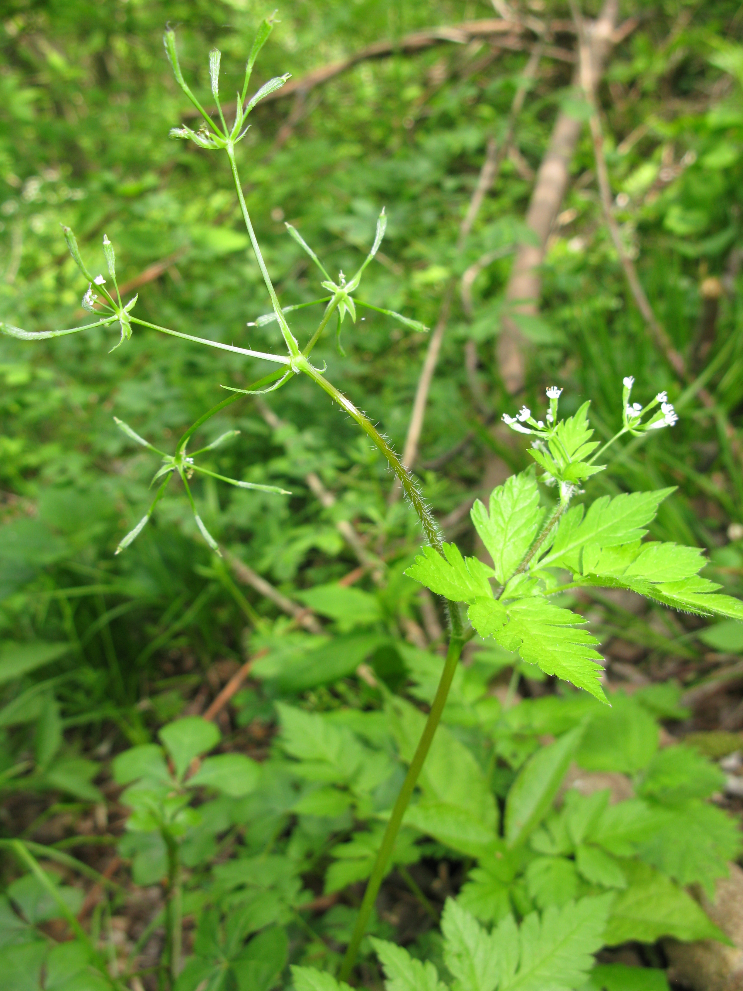 Osmorhiza aristata, Aizu area, Fukushima pref., Japan